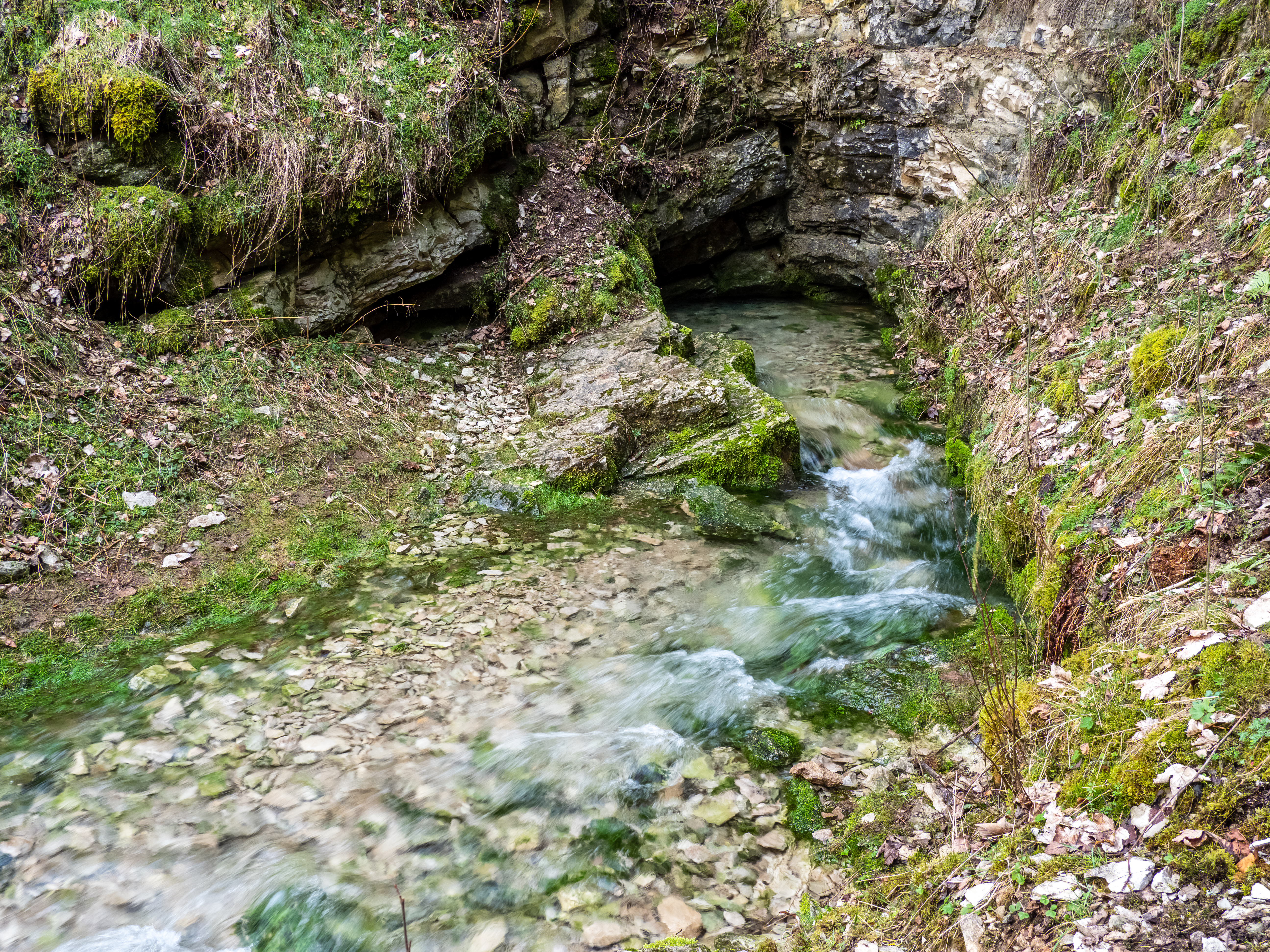 Sprudelnde Trockenquelle der Leinleiter